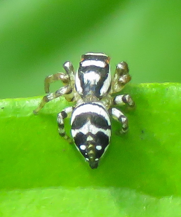 Nycerella aprica. Species of arachnid.